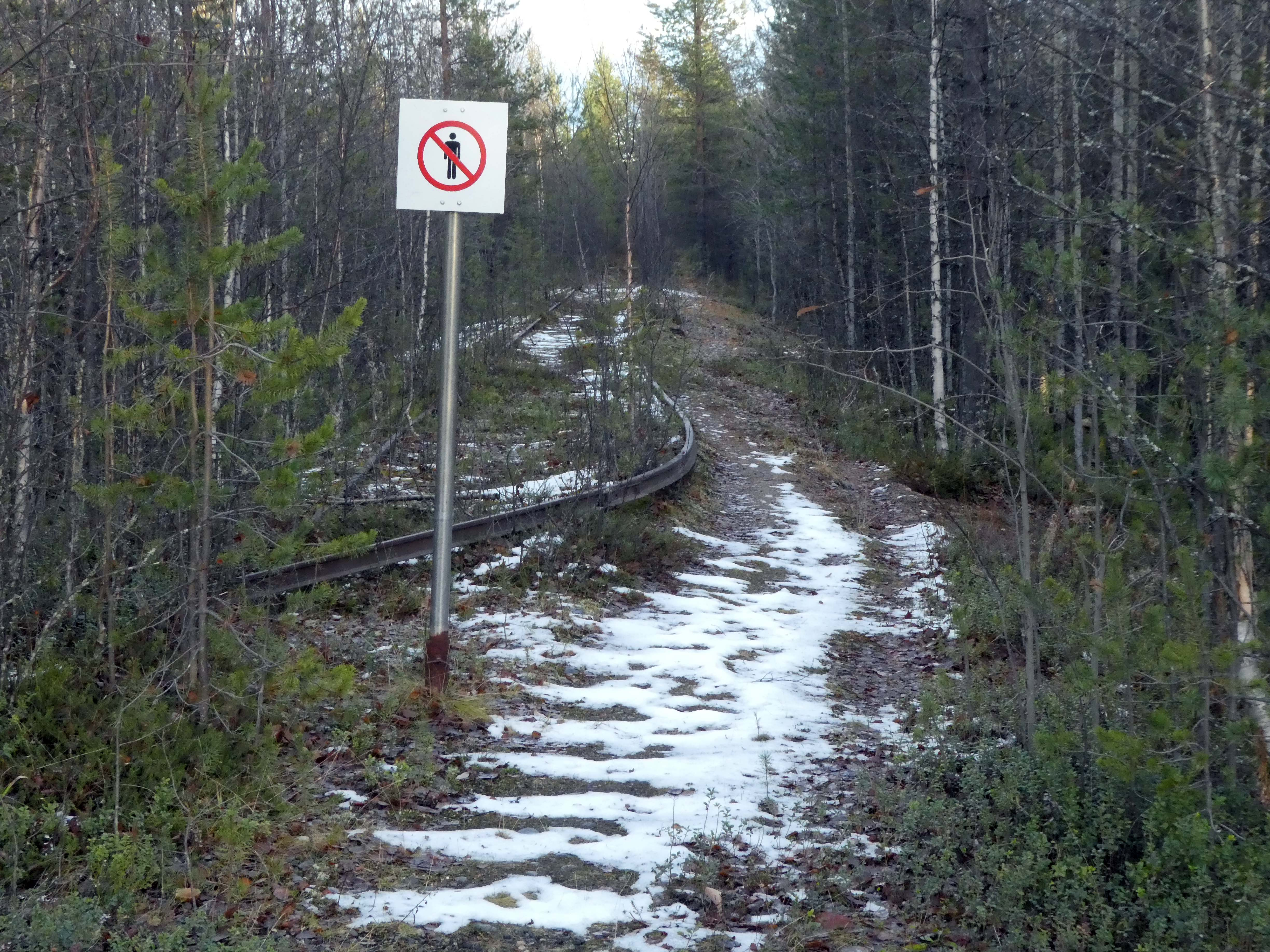 The broken railway in Finnish Lapland, which Finland was forced to build by the Soviet Union after their wars in the 1940:s.